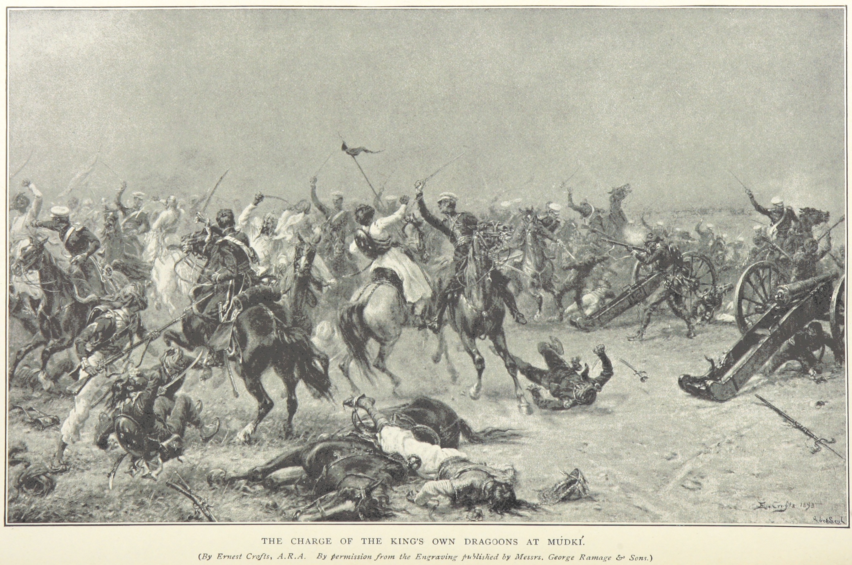 The 3rd King's Own Light Dragoons charge Sikh forces at the 1845 Battle of Mudki.